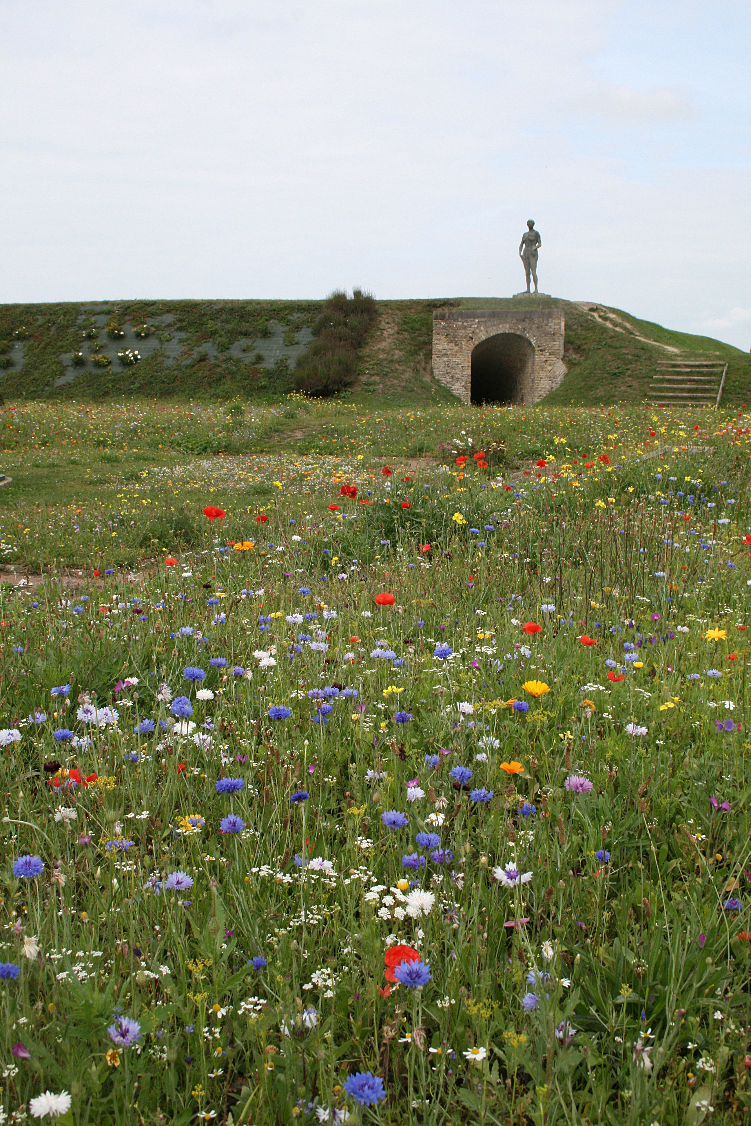 Gravelines (Nord) France, les jardins de l'Arsenal (the gardens of Arsenal).